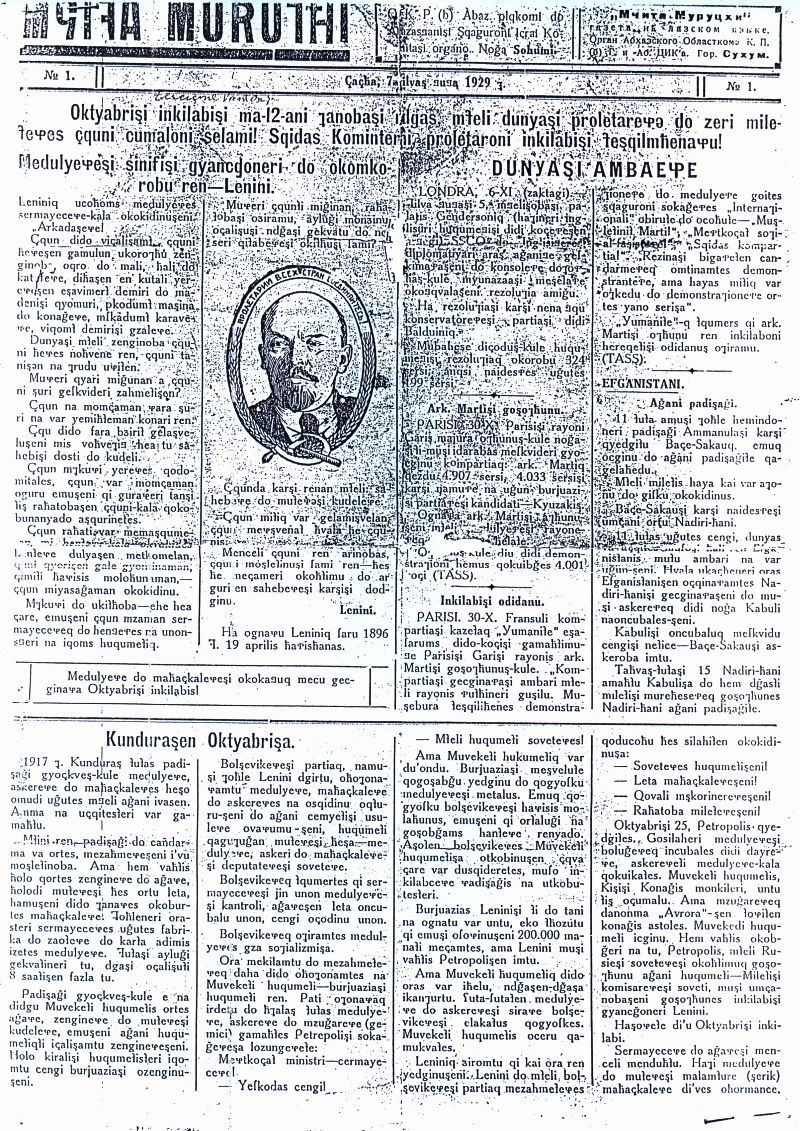 Lenin the icon: A 1929 Laz language newspaper featuring Lenin's writing. The newspaper "Mçita Murunxi" (red star) On 7 November 1929 (the first) in Laz language printed in Sukhumi.